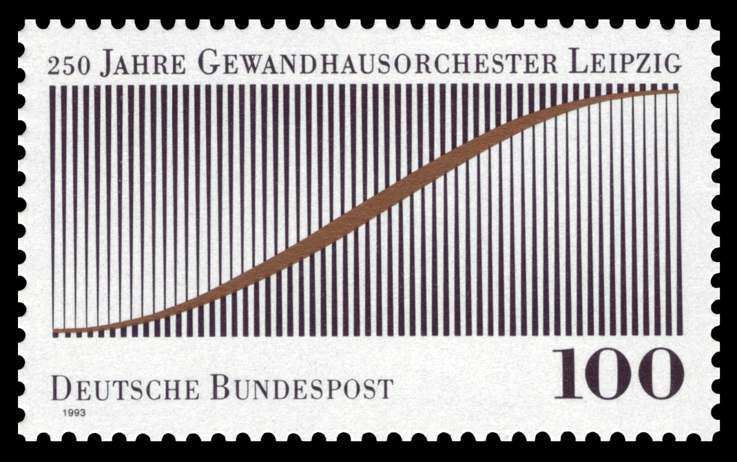 250 years of the Gewandhausorchester Leipzig